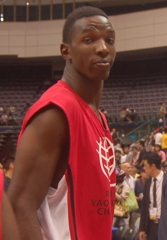 at the end of the Yao Foundation charity basketball game in Taiwan